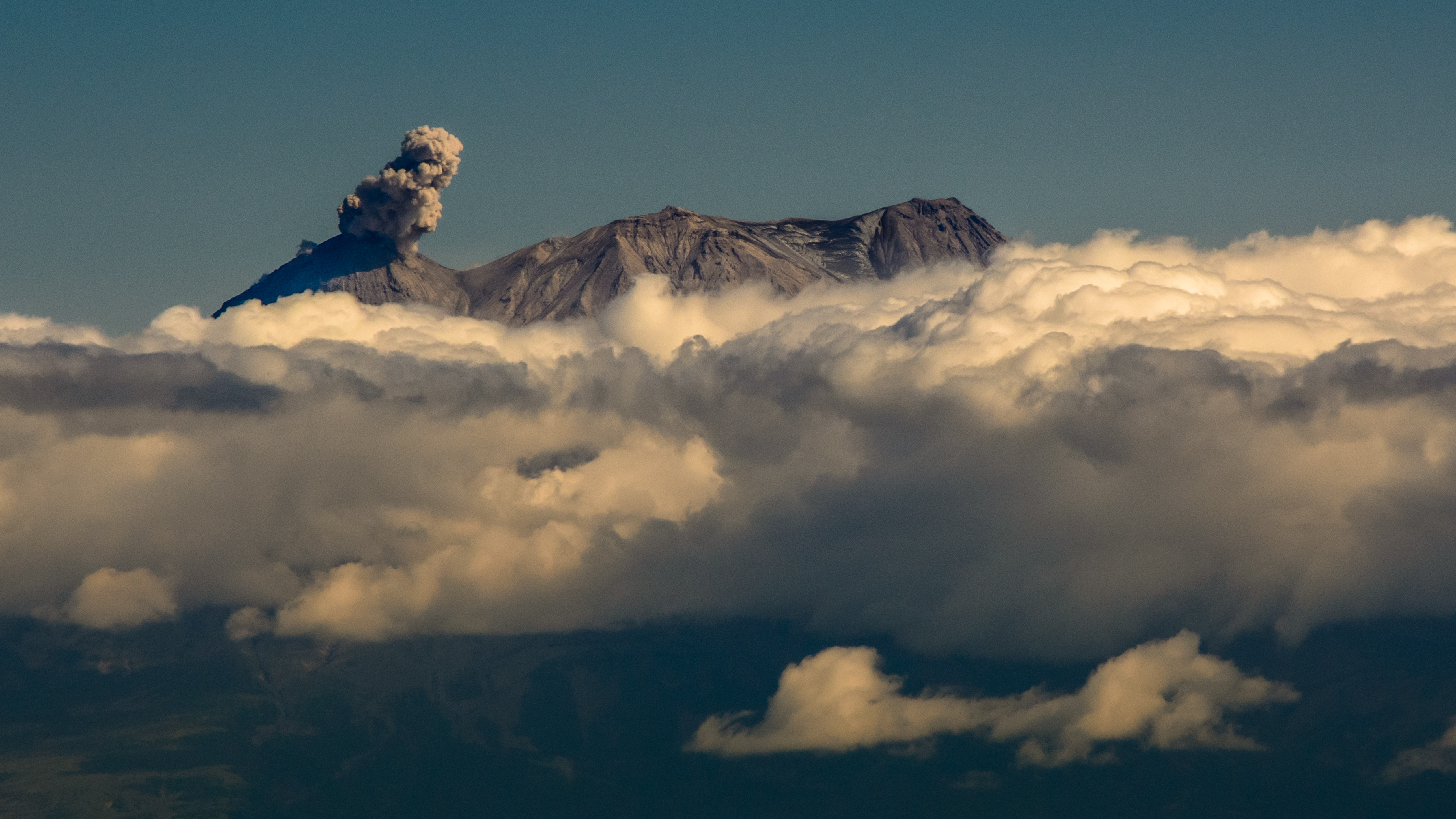 Eruption of the volcano 'Zhupanovsky' seen from volcano 'Avachinsky' (Kamchatka, Russia)